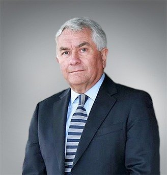 Official photo of Enrique Paris as Minister of Health on June 13, 2020